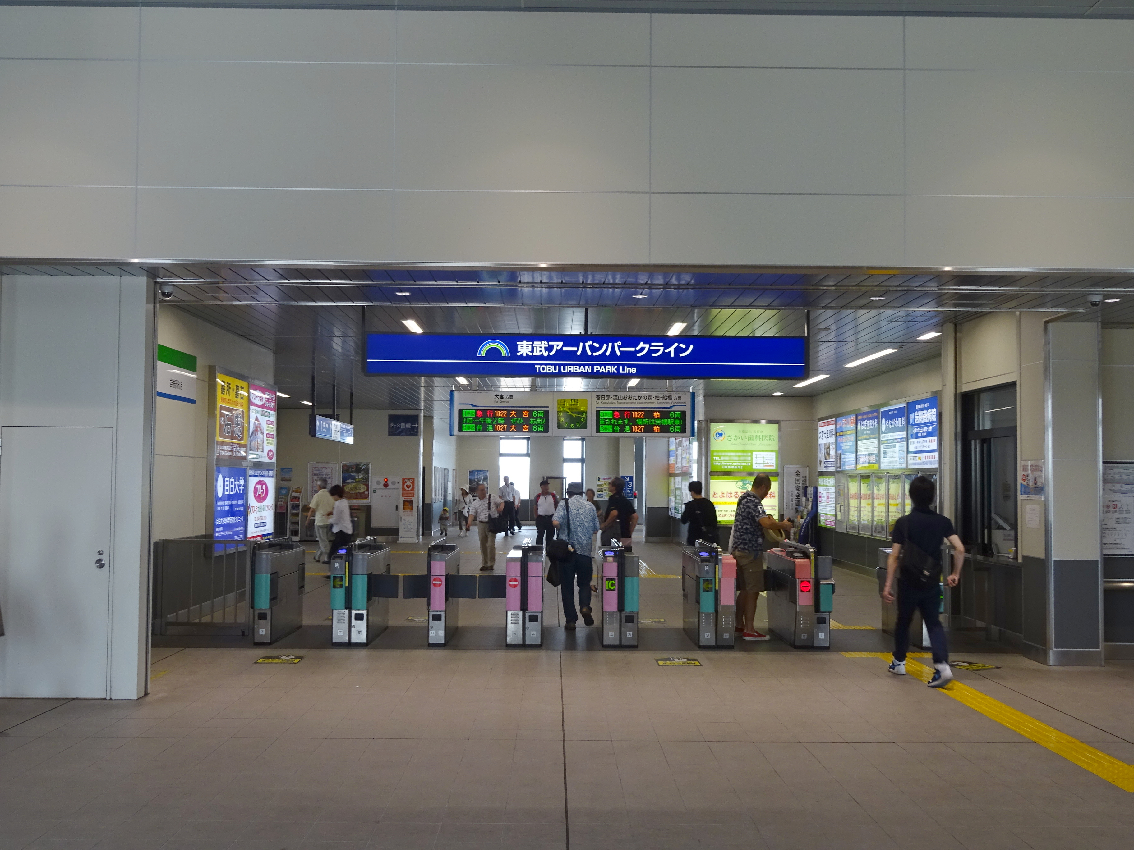 Ticket barriers of Iwatsuki Station